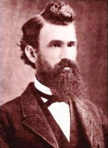 Photograph of Edmund C. Briggs, an leader in the early history of the Latter Day Saint movement.